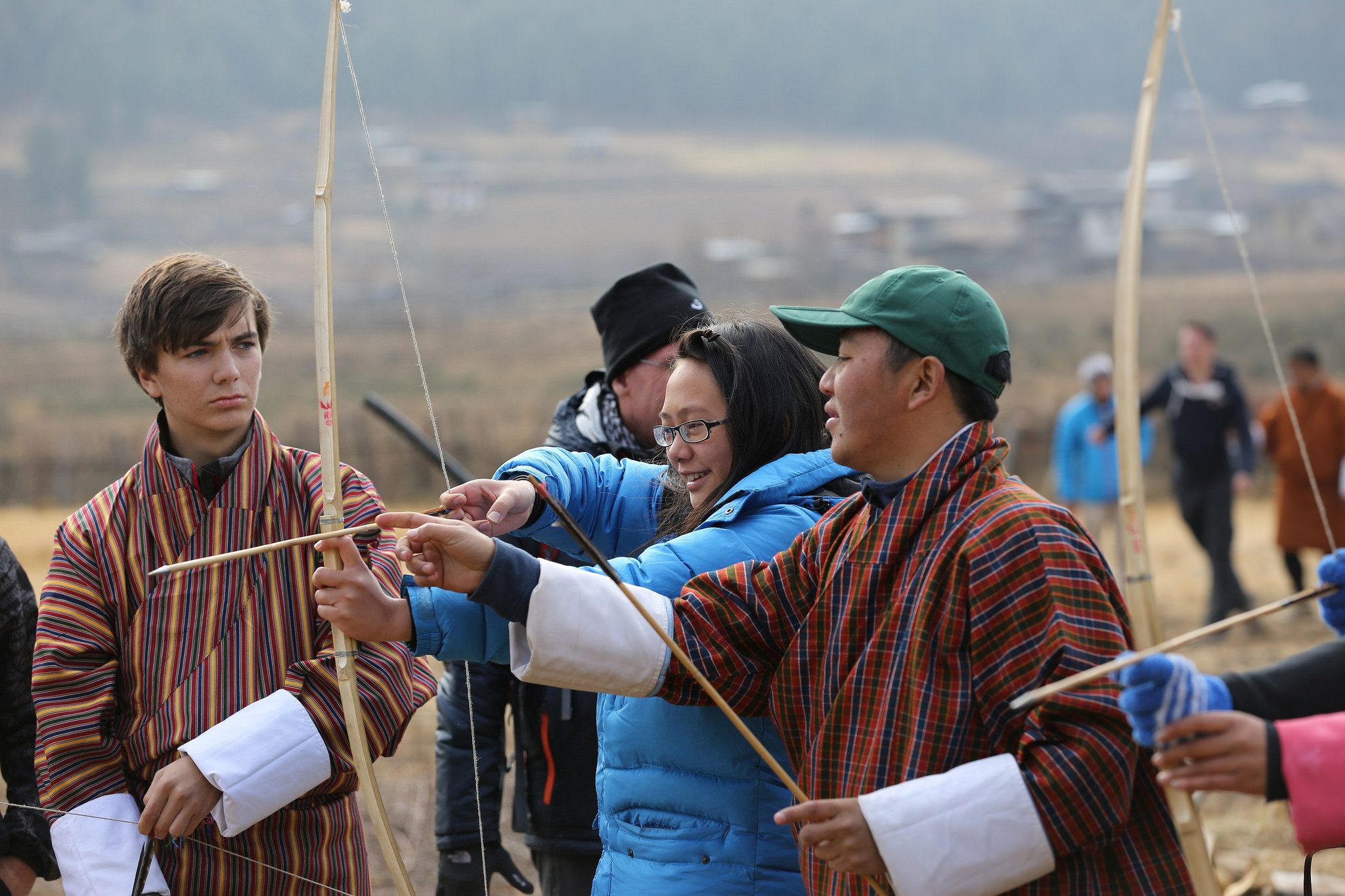 Students practice archery in Bhutan